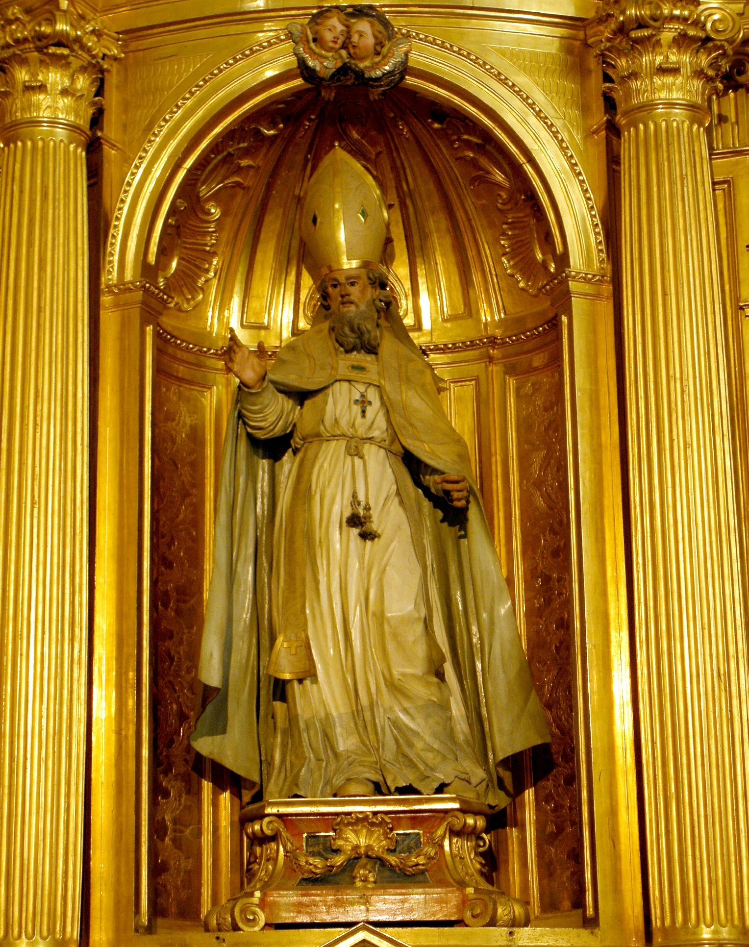 Talla del santo en el retablo mayor. Capilla de San Geroteo, Catedral de Segovia. Segovia Cathedral Native nameCatedral de Santa María de SegoviaLocationSegovia , (Spain)Coordinates40° 57′ 00.65″ N, 4° 07′ 32.24″ W EstablishedMiddle AgeWeb page control : Q1499912 VIAF: 151939123 ISNI: 0000 0001 0672 8869 LCCN: n81124924 NLA: 36562756 BIC: RI-51-0000862 WorldCat institution QS:P195,Q1499912